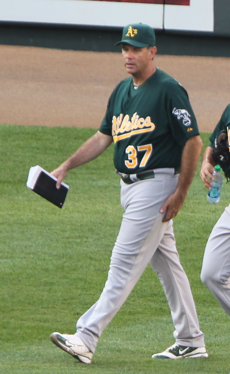 Ron Romanick